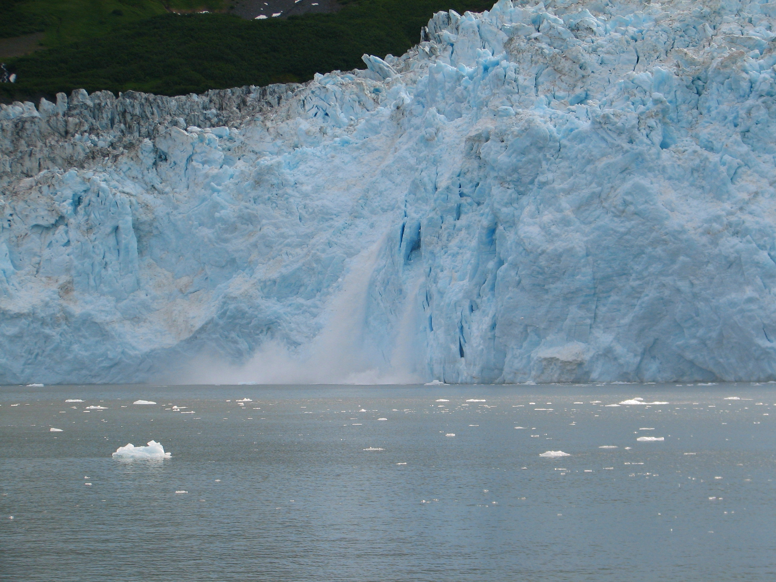 Breaking glacier at Kenai Fjords National Park, Alaska, USA. Author:Cribananda